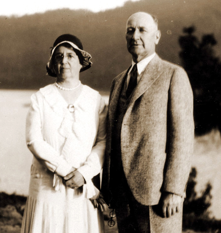 United States Forest Service photo of Wenatchee National Forest supervisor Albert H. Sylvester and his wife Alice.